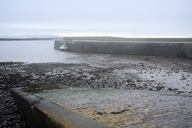 Cappagh Pier and slipway Located about 1 km south of Kilrush, this is an ideal fishing spot for catching dogfish, wrasse, conger, whiting and small pollack using sand eel and mackerel as bait.